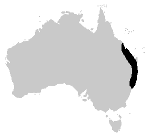 Distribution map for Litoria chloris, the Red-eyed Tree Frog.